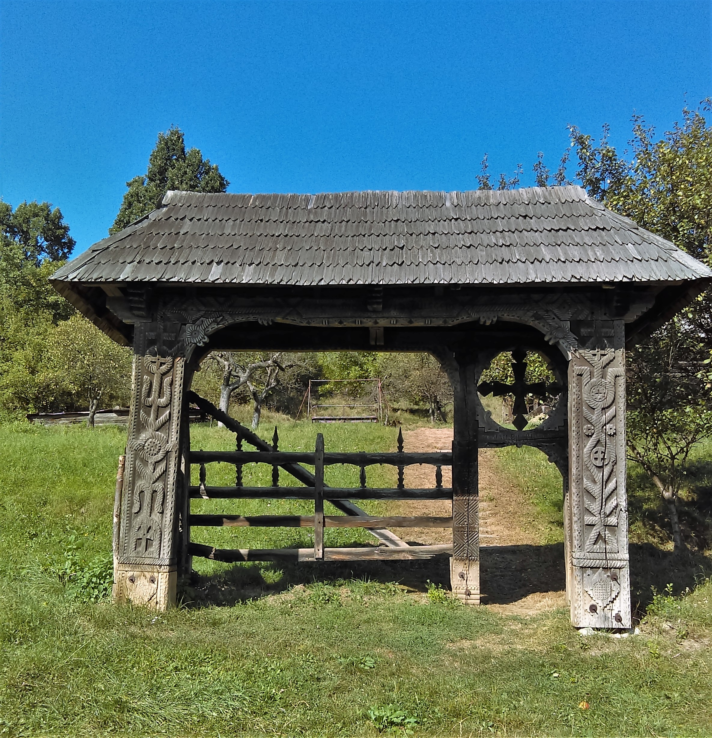 Traditional gate from Maramureș County in open-air museum in Sighetu Marmației